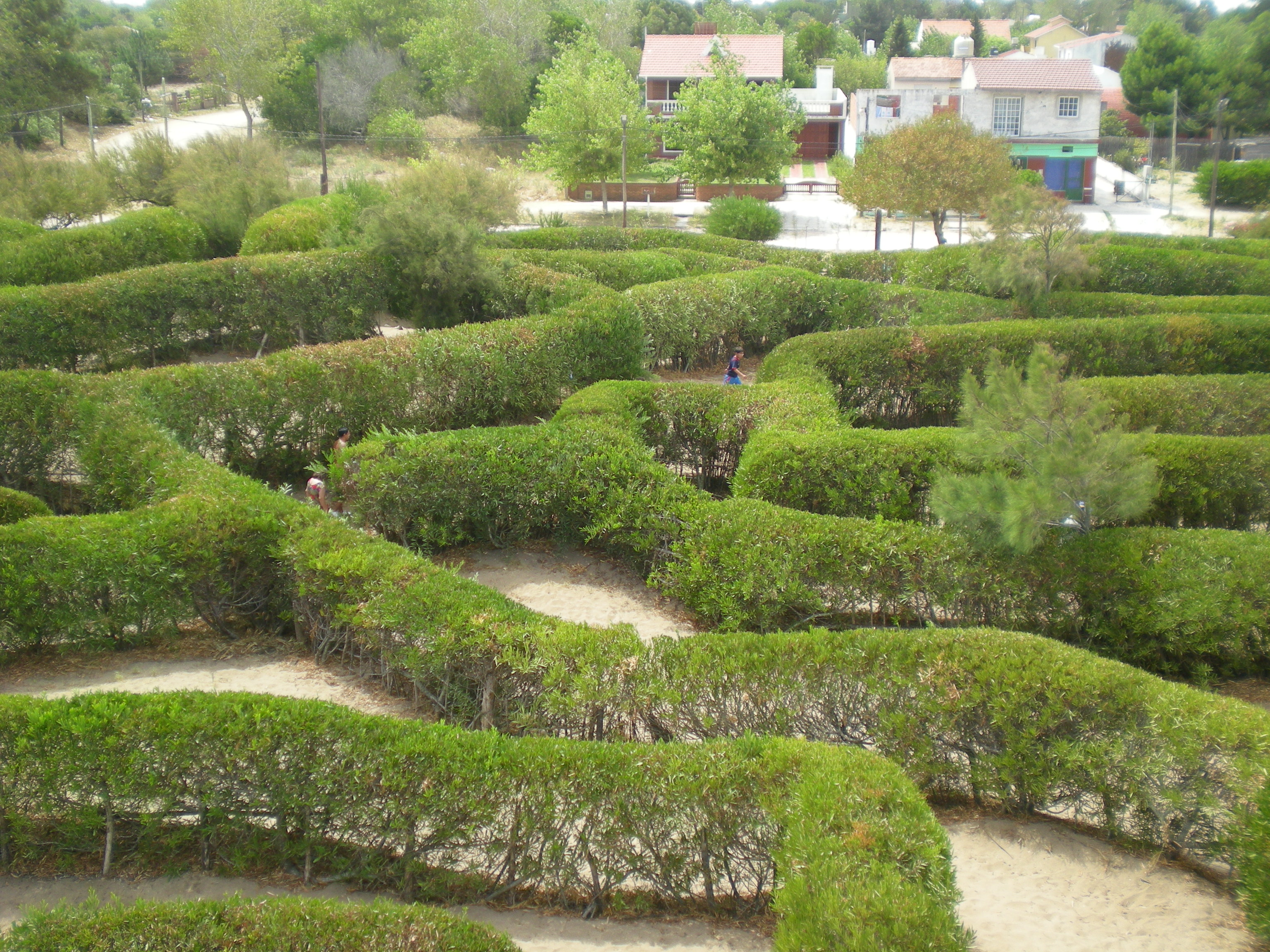 Laberinto de Las Toninas, Partido de La Costa.